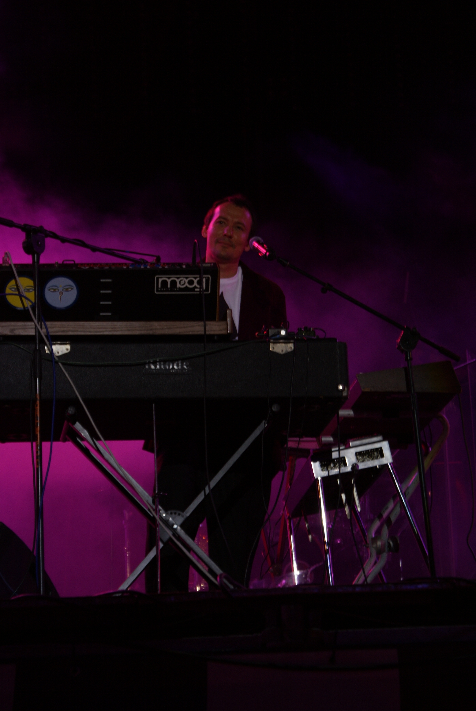 Orange Warsaw Festival 2009, Pl. Defilad, Warsaw, Poland Smolik